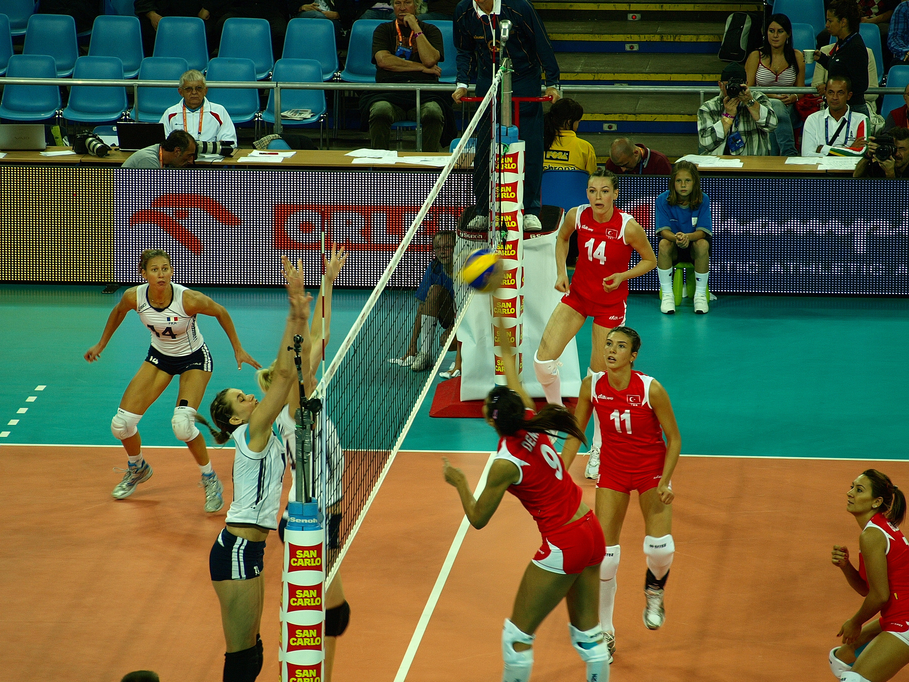 2009 Women's European Volleyball Championship match between Turkey and France in Hala Stulecia in Wrocław (Poland)